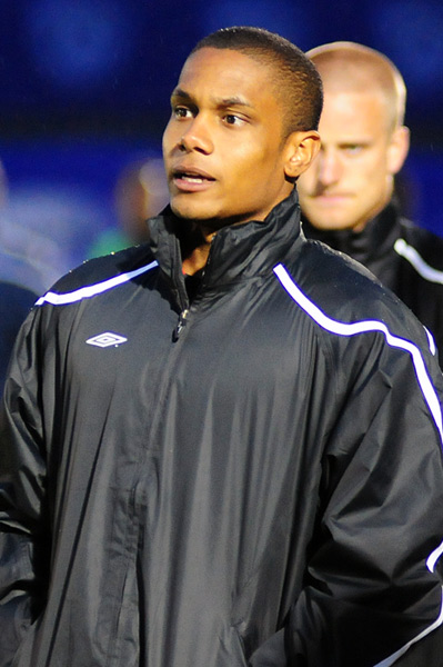 photo of soccer player, Randi Patterson. Wilson Wong photo.